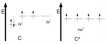 Hybridised carbon